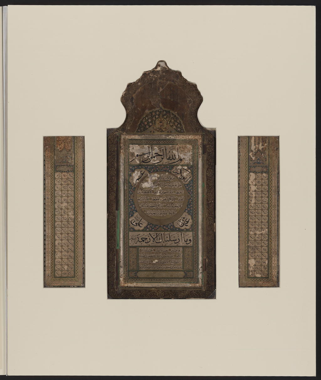 Hilye, or calligraphic panel containing a physical description of the Prophet Muhammad, was made in 1130/1718 in the Galata Palace (Saray Galata), Istanbul, by the calligrapher Dihya Salim al-Fahim (This is a mistake in reading the Arabic description which says: "كتبه وذهَّبه: سُلَيم الفهيم", That mean: "Wrote and decorate it: Sulaim al-Fahim", a pupil of Yusuf Efendi. This hilye, mounted on a wooden borard is unusual in having two side panels, similar to a Christian triptych. The central panel displays a textual description of the Prophet Muhammad. The side panels list the 99 names of God. Central panel dimensions: 10.9 (w) x 21.9 (h) cm, each side panel dimensions: 3.2 (w) x 17.2 (h) cm. United States Library of Congress.